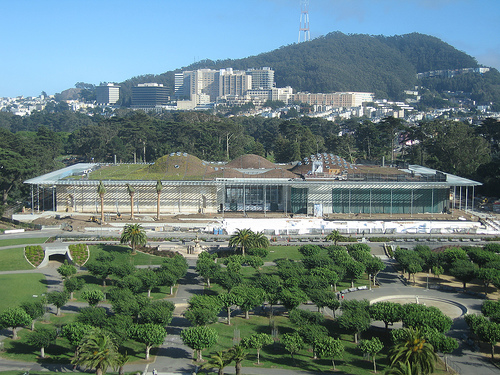 The California Academy of Sciences building under construction in San Francisco's Golden Gate Park, August 2007.